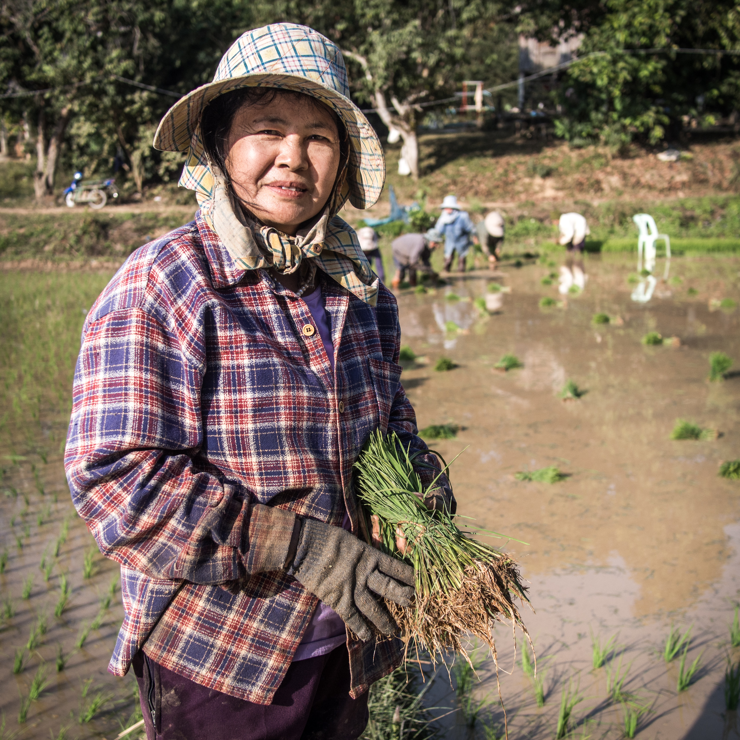 Planting rice in Mae Chan District, Chiang Rai Province.